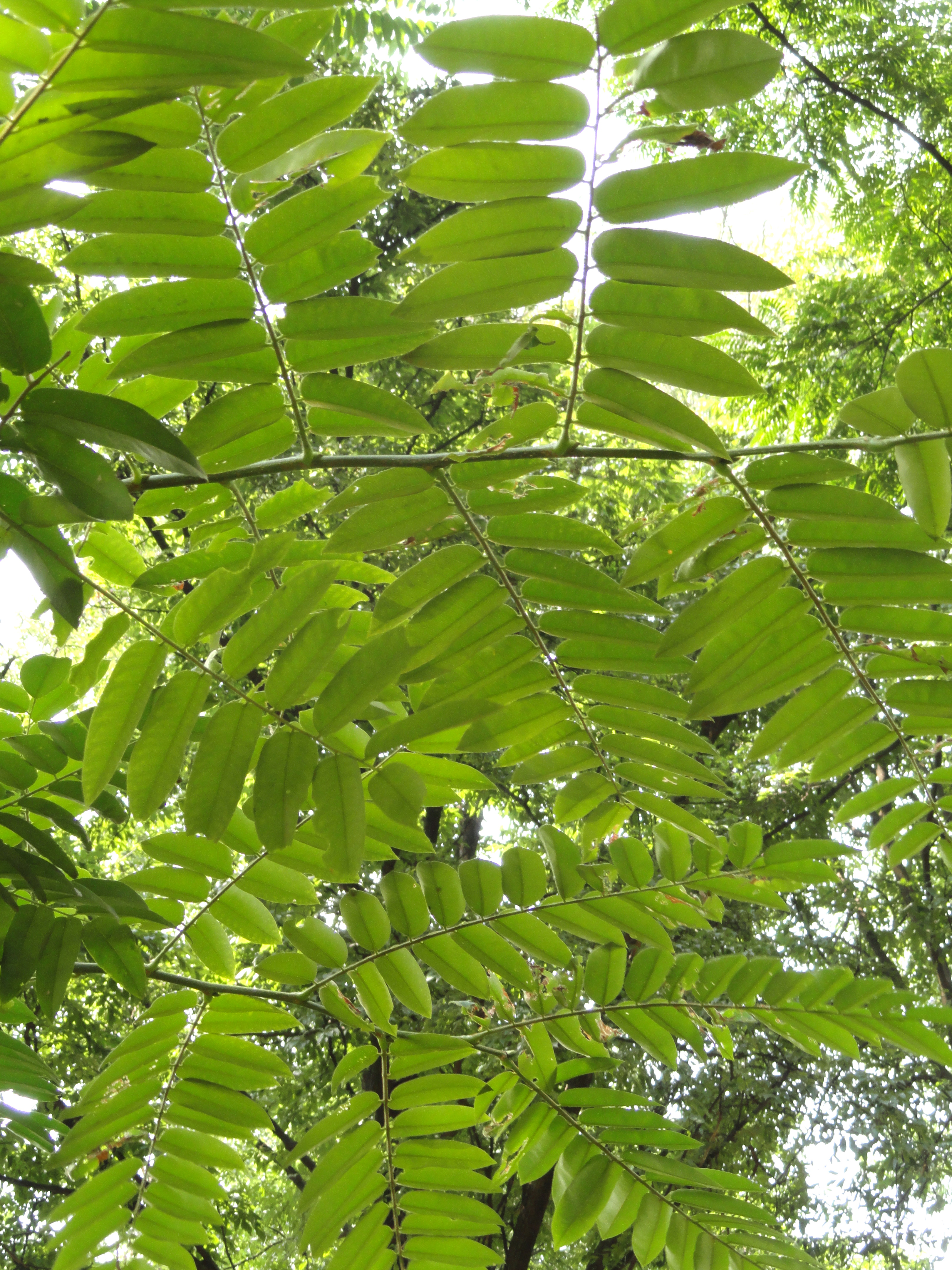 Plant specimen in the Kunming Botanical Garden, Kunming, Yunnan, China.